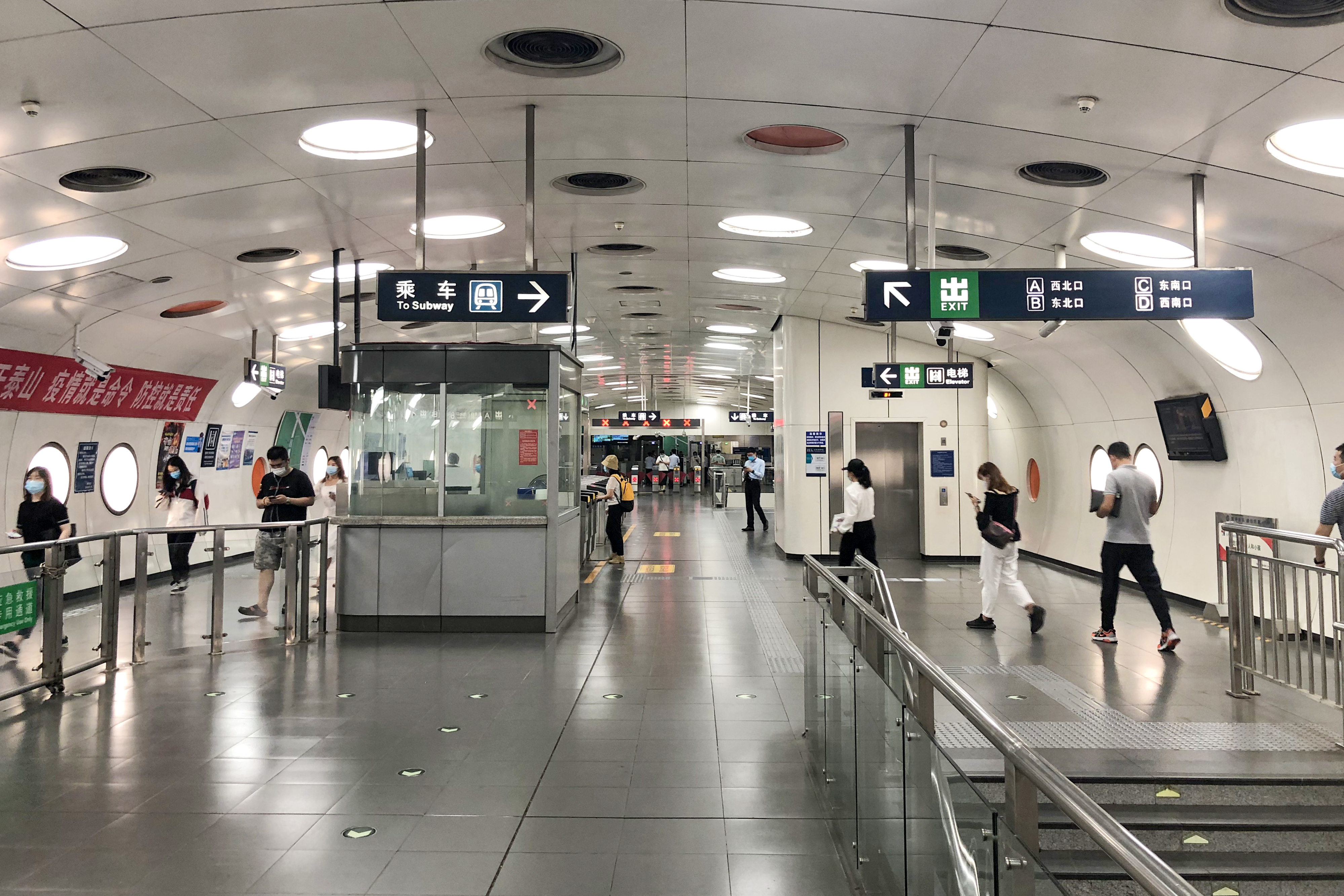 Just gave me a feeling of CRT?